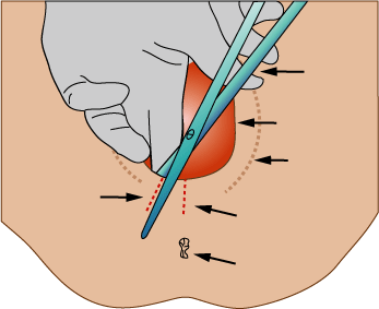 Medio-lateral episiotomy illustration. Based on 1/9/2005 Jeremy Kemp's image[1]. Blank without label.